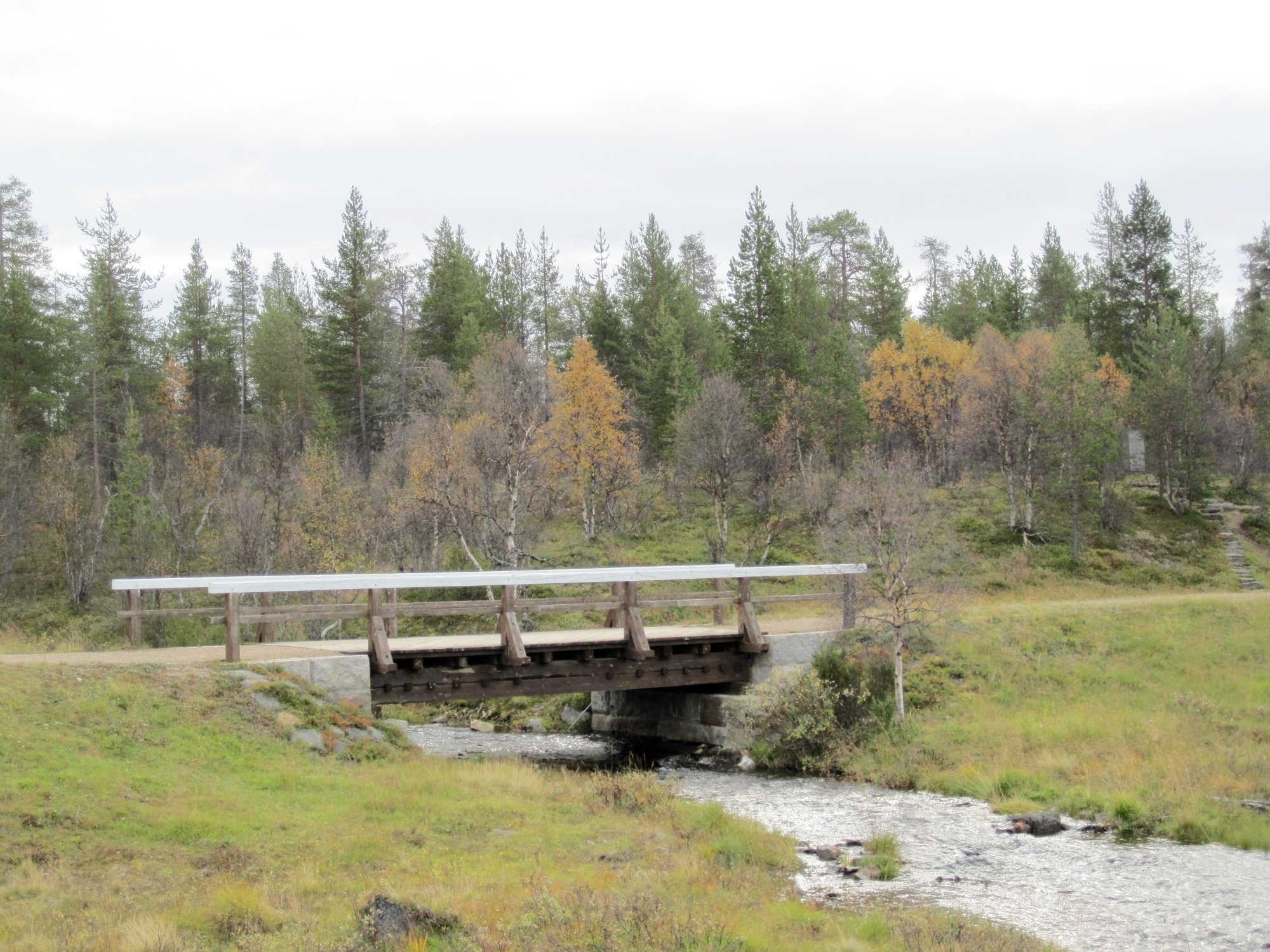 Piispanoja bridge in Laanila, Inari, Finland on the former highway 4